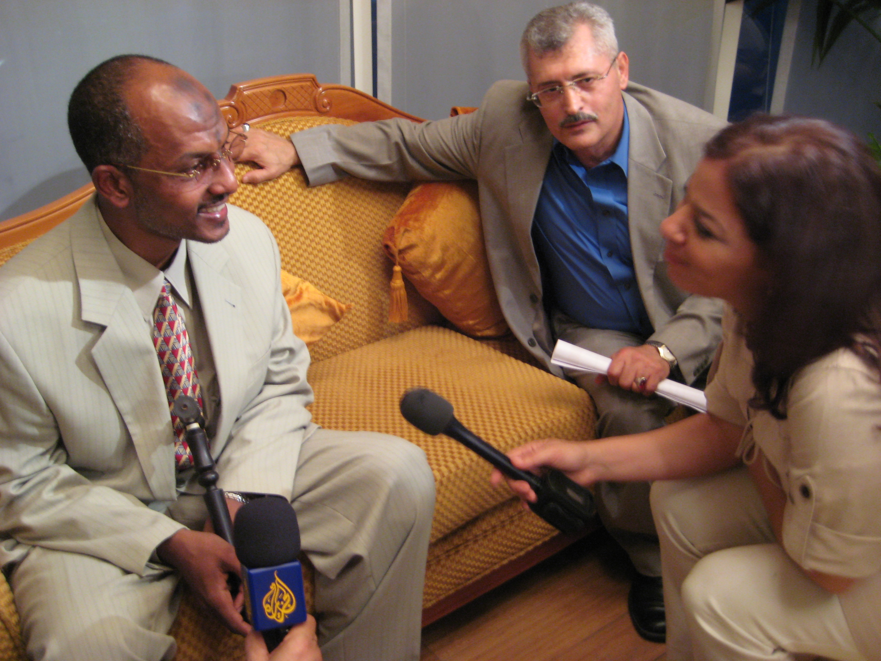 Hoda Abdel-Hamid, Al Jazeera English correspondent, interviews Al-Hajj after he arrived at Doha airport from Khartoum.